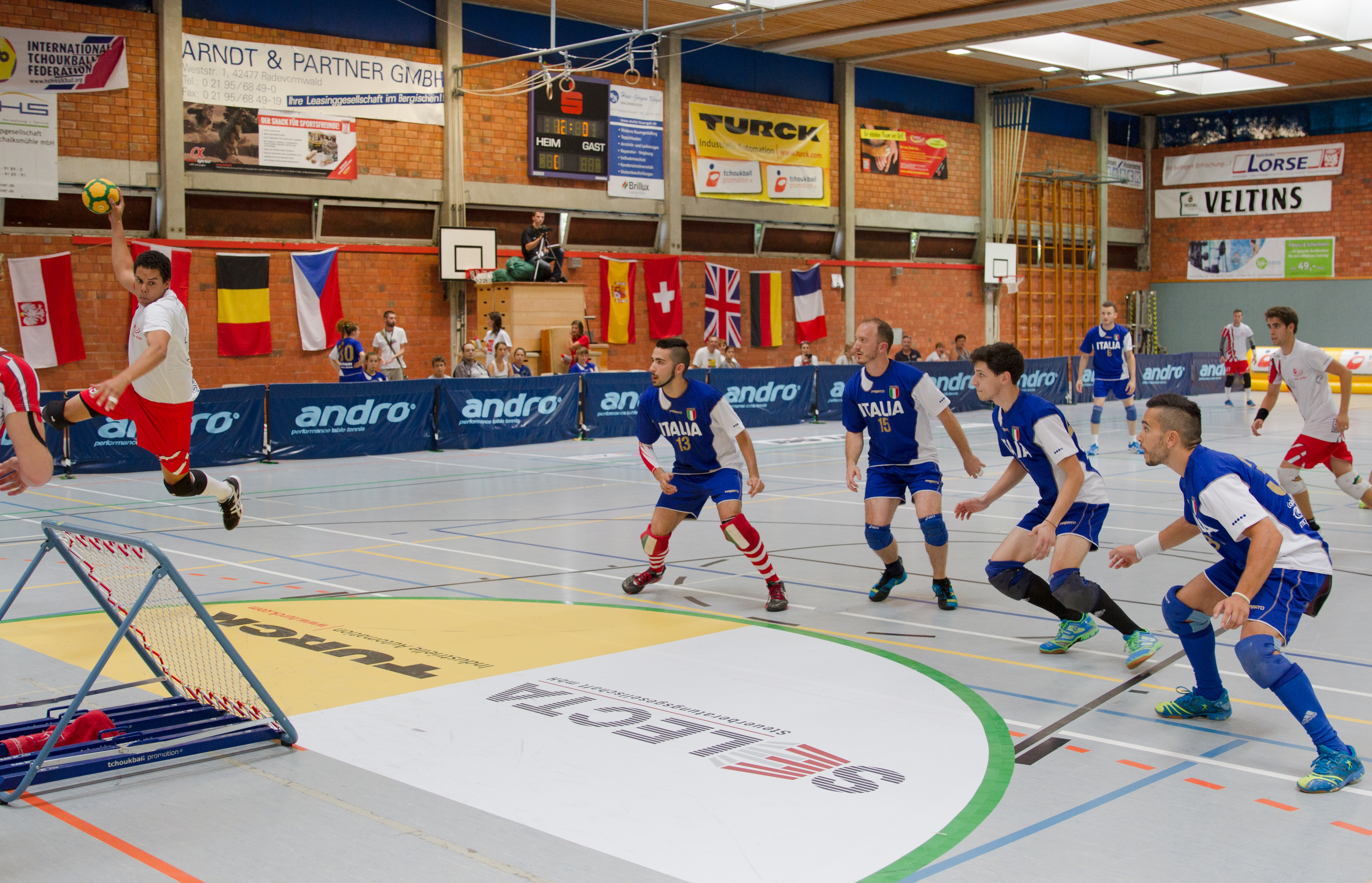 European Tchoukball Championships 2014